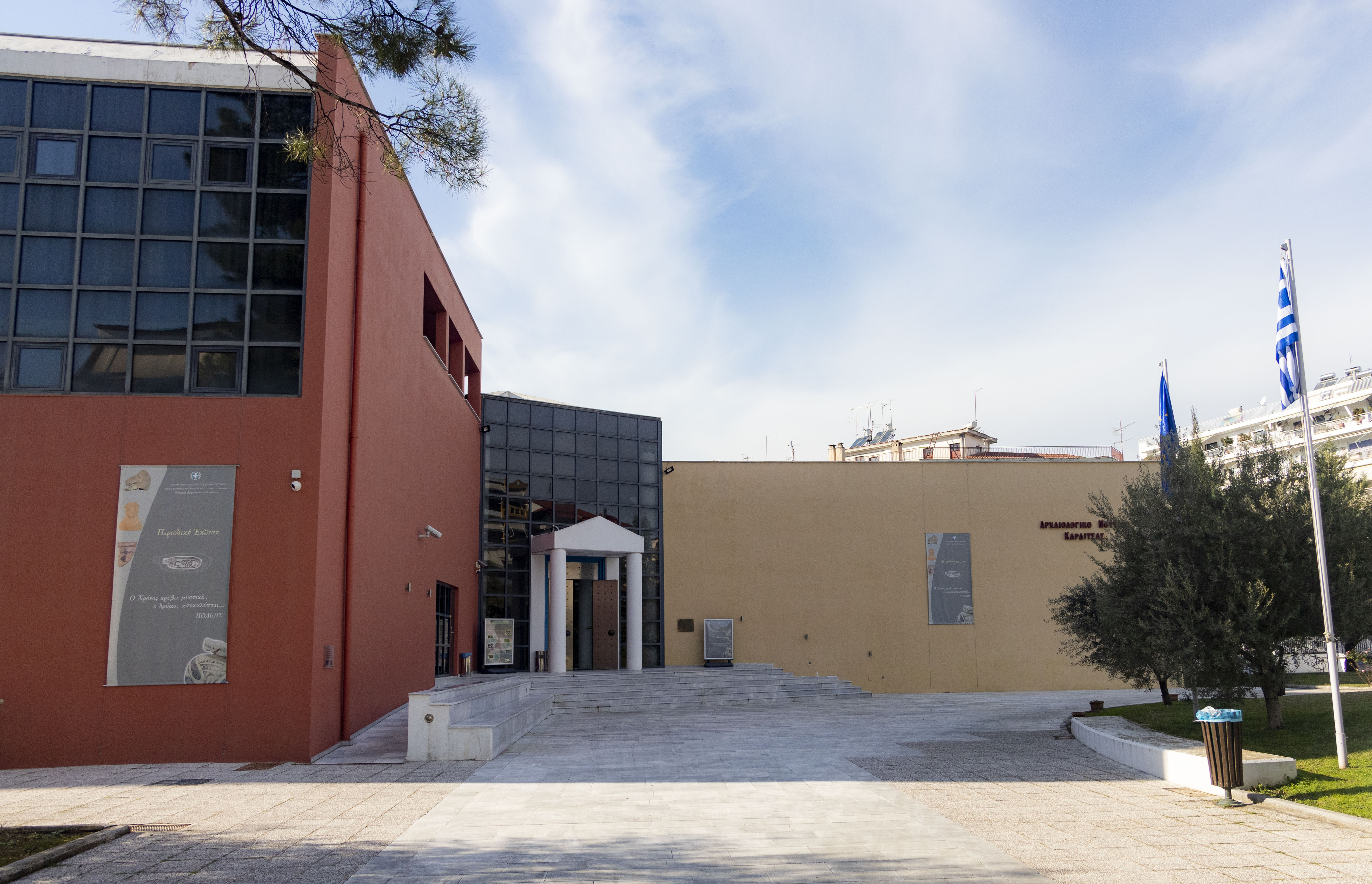 Entrance of the Archaeological Museum of Karditsa